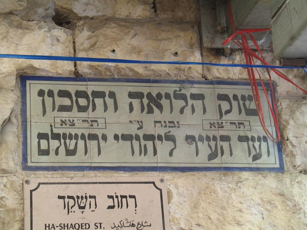 "HA-SHAQED ST." - Machne Yehuda Market, Jerusalem.